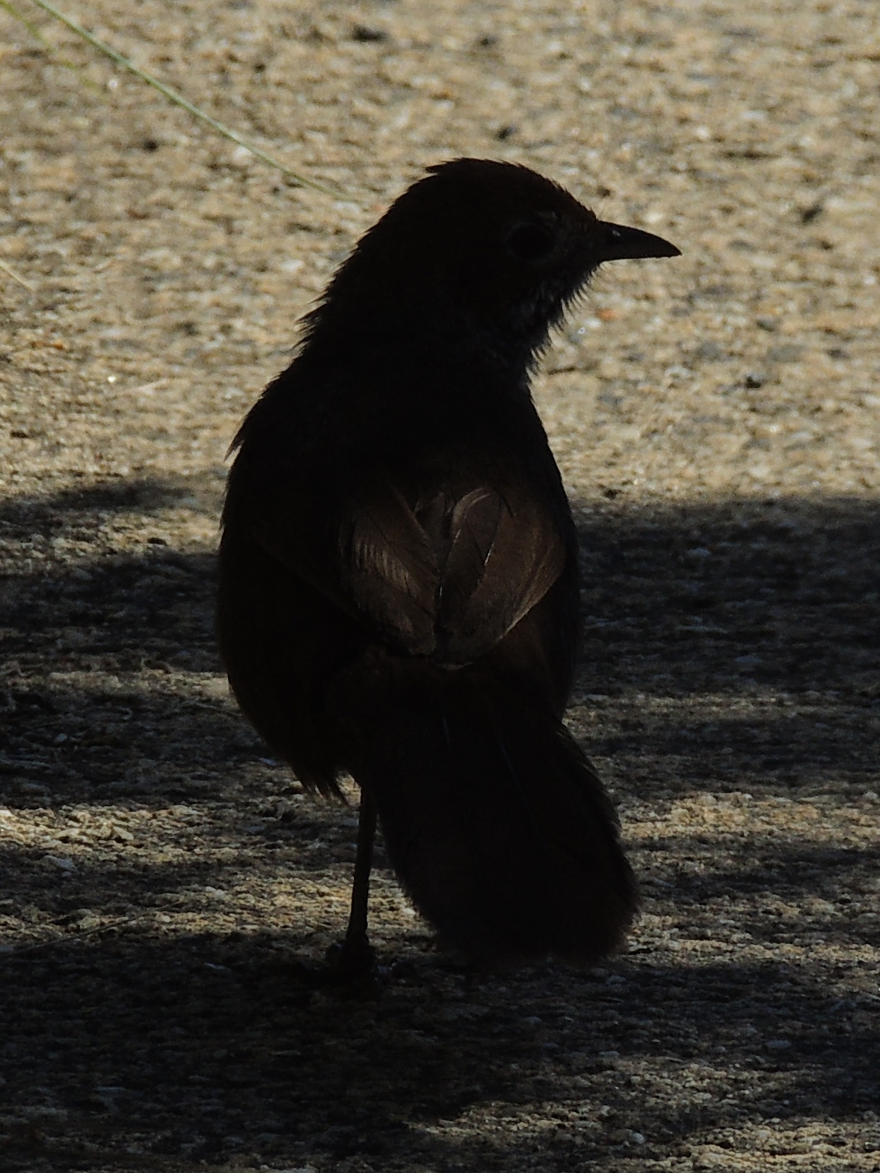 Otways rufous bristlebird (Dasyornis broadbenti caryochrous), The Arch, Port Campbell National Park, Victoria